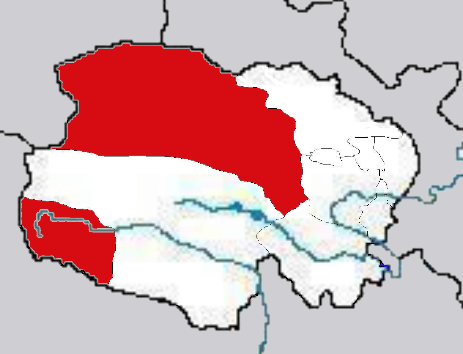 Maps of Qinghai Province of China